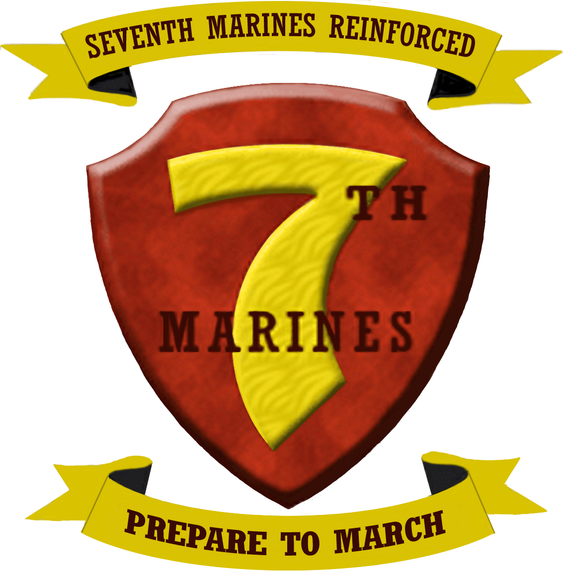 United States Marine Corps 7th Marine Regiment insignia. Made with Photoshop.